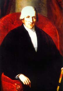 Jonathan Sewell (1766-1839)